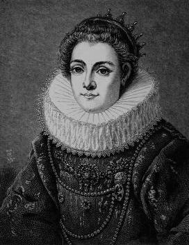 Lady Anna Mackenzie, countess of Balcarres and countess of Argyll noblewoman from A memoir of Lady Anna Mackenzie, countess of Balcarres and afterwards of Argyll, 1621-1706; (1868)